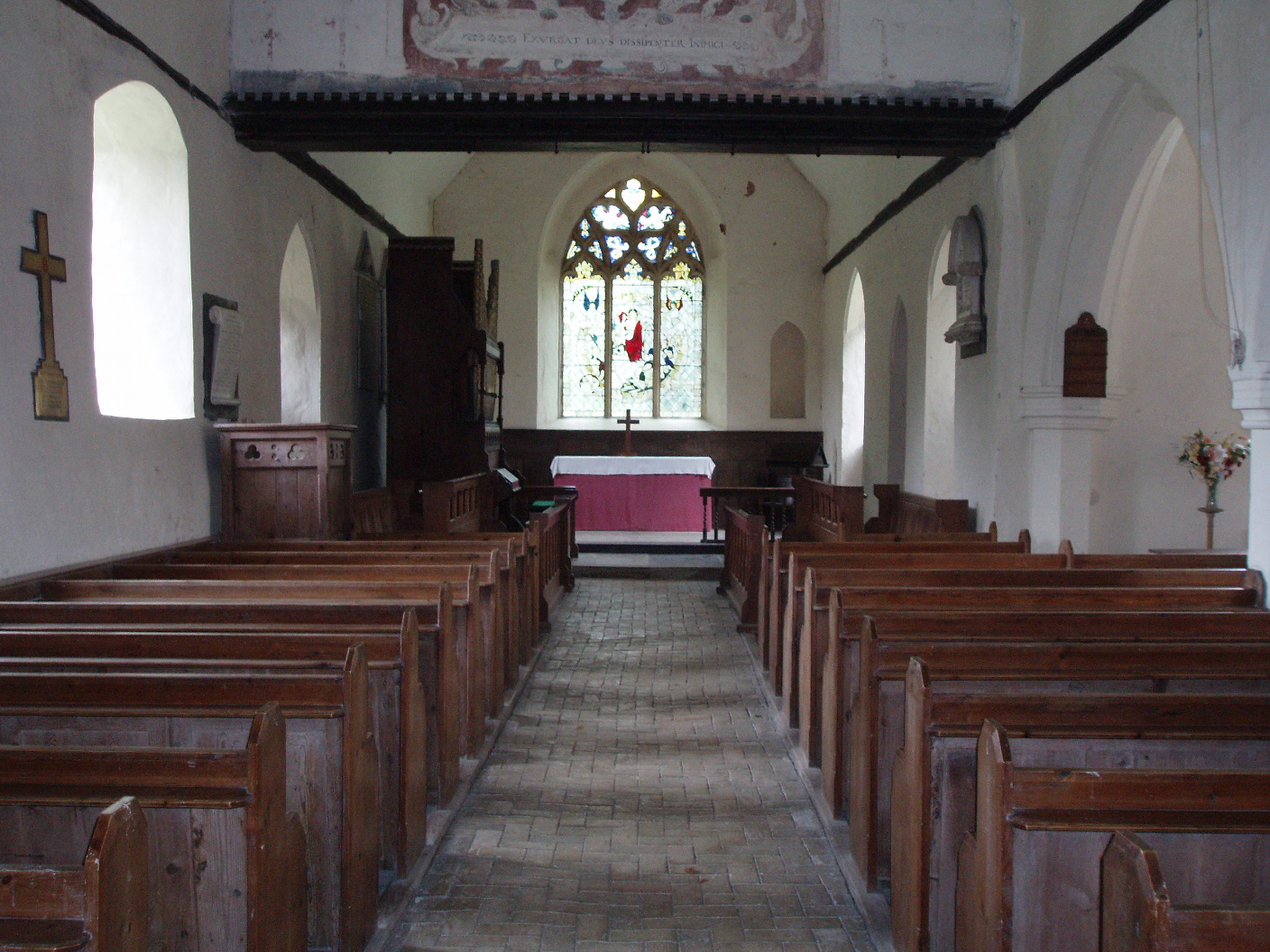 Inside St Mary's "Old Church" West Bergholt, Colchester, Essex, UK